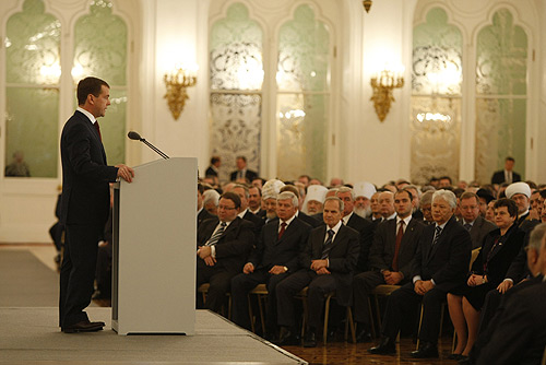 GRAND KREMLIN PALACE, MOSCOW. Annual Address to the Federal Assembly.